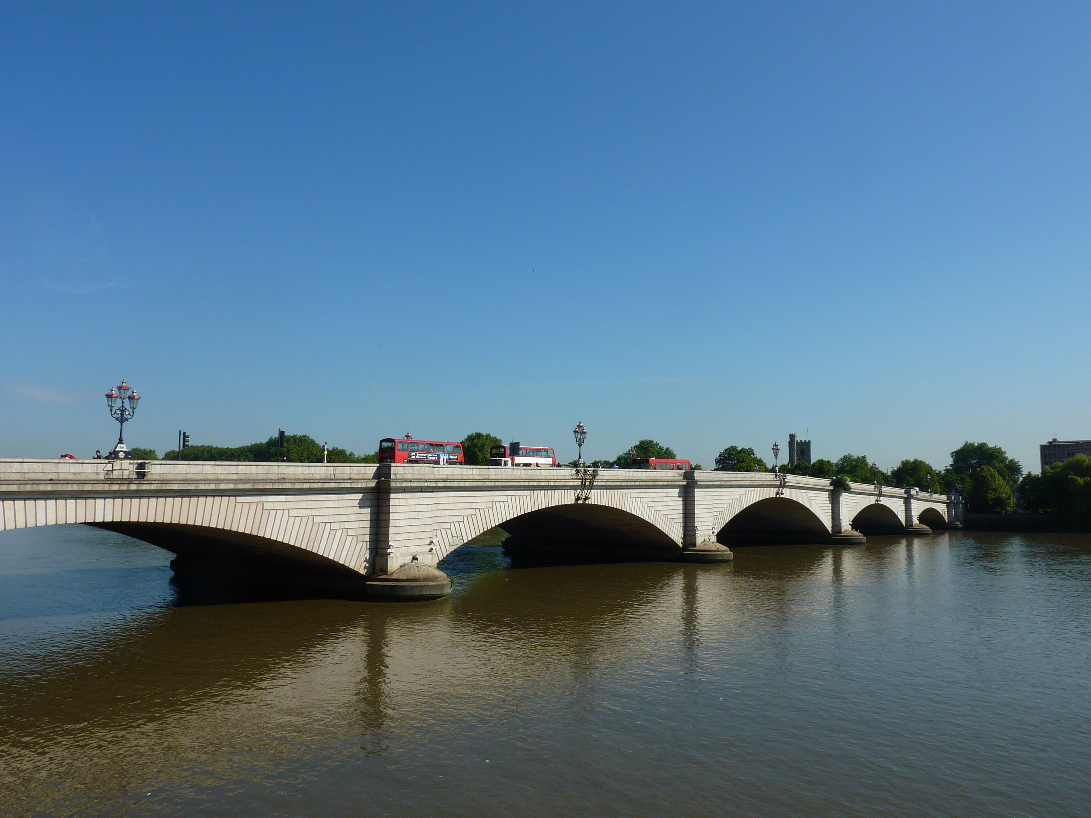 The Putney Bridge is a bridge crossing of the River Thames in west London, linking Putney on the south side with Fulham to the north